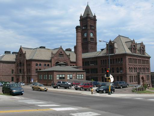 Old High School, Duluth